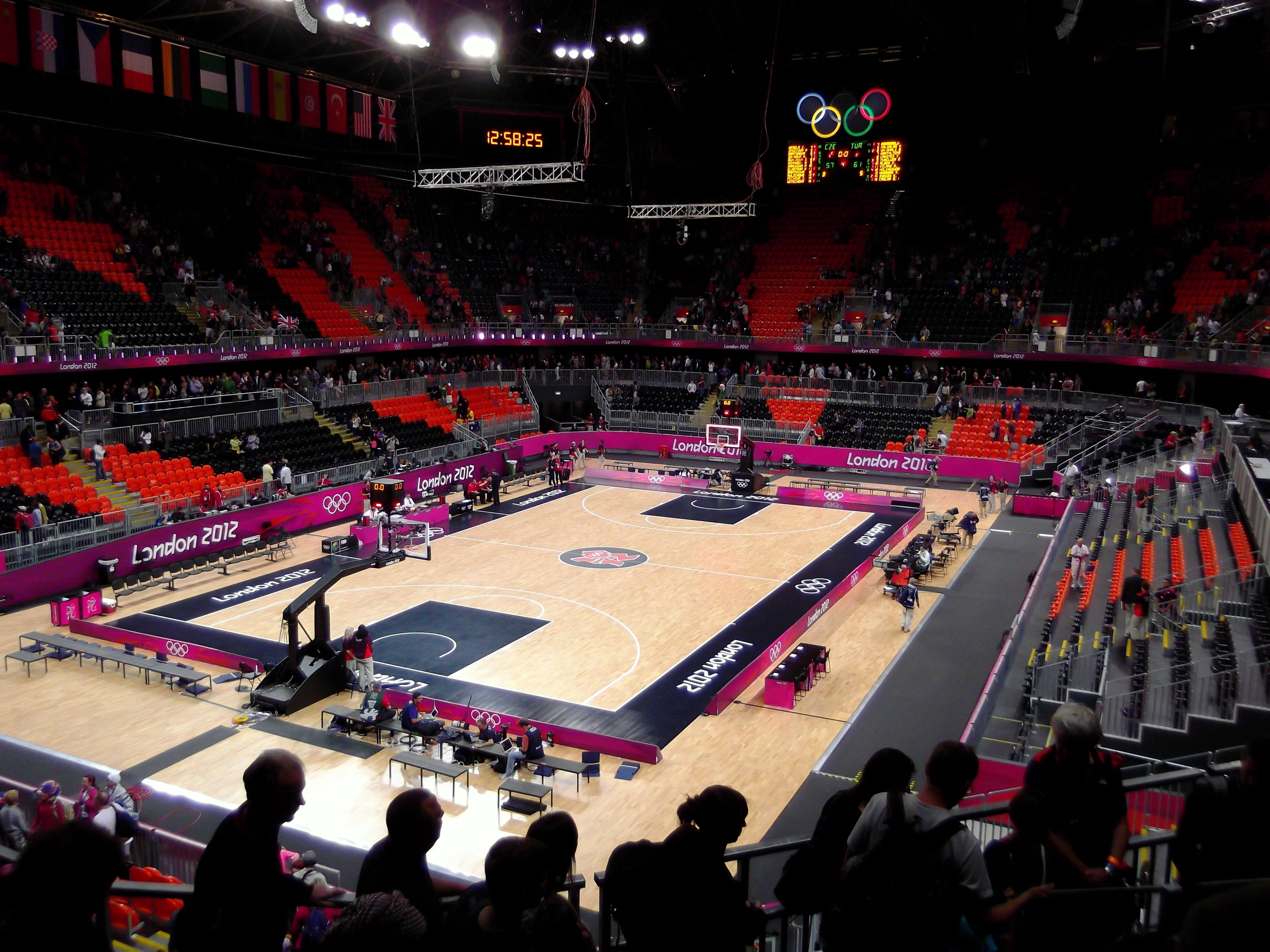 London 2012 Olympics 171 Basketball Arena (5)